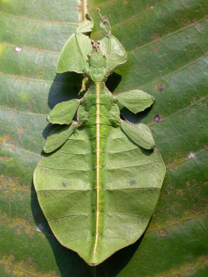 Leaf insect Phyllium sp. (Identification to genus contributed by : Doug Yanega. This is thought to be as yet undescribed.)